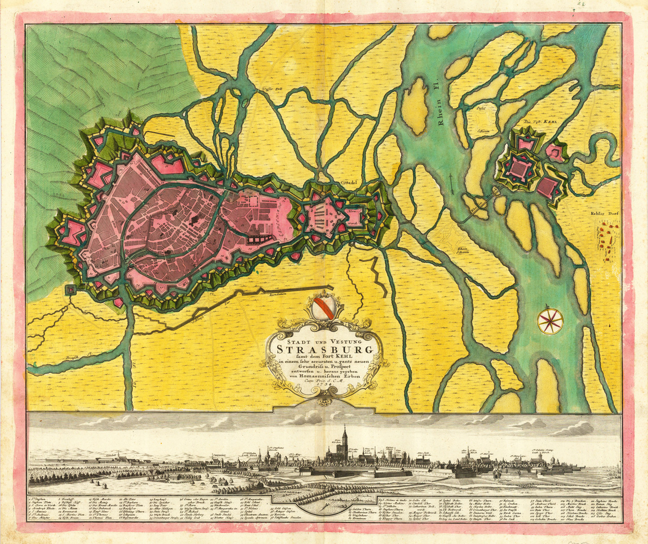 Strasburg and the strategic fortress of Kehl on the right bank of the Rhine. Published by Homann Heirs, 1734.